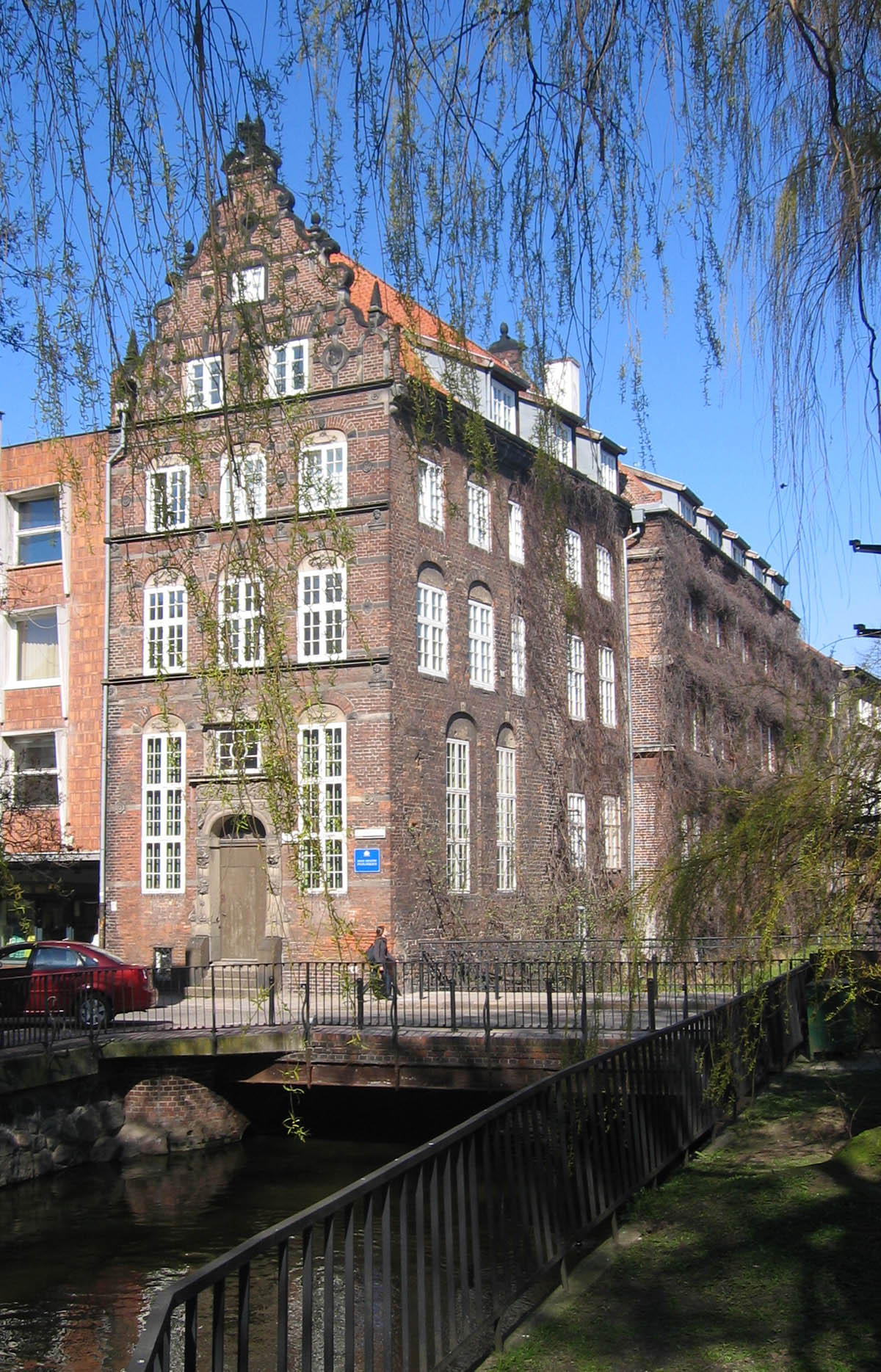 Gdansk, Poland, House of the Abbots from Pelplin.